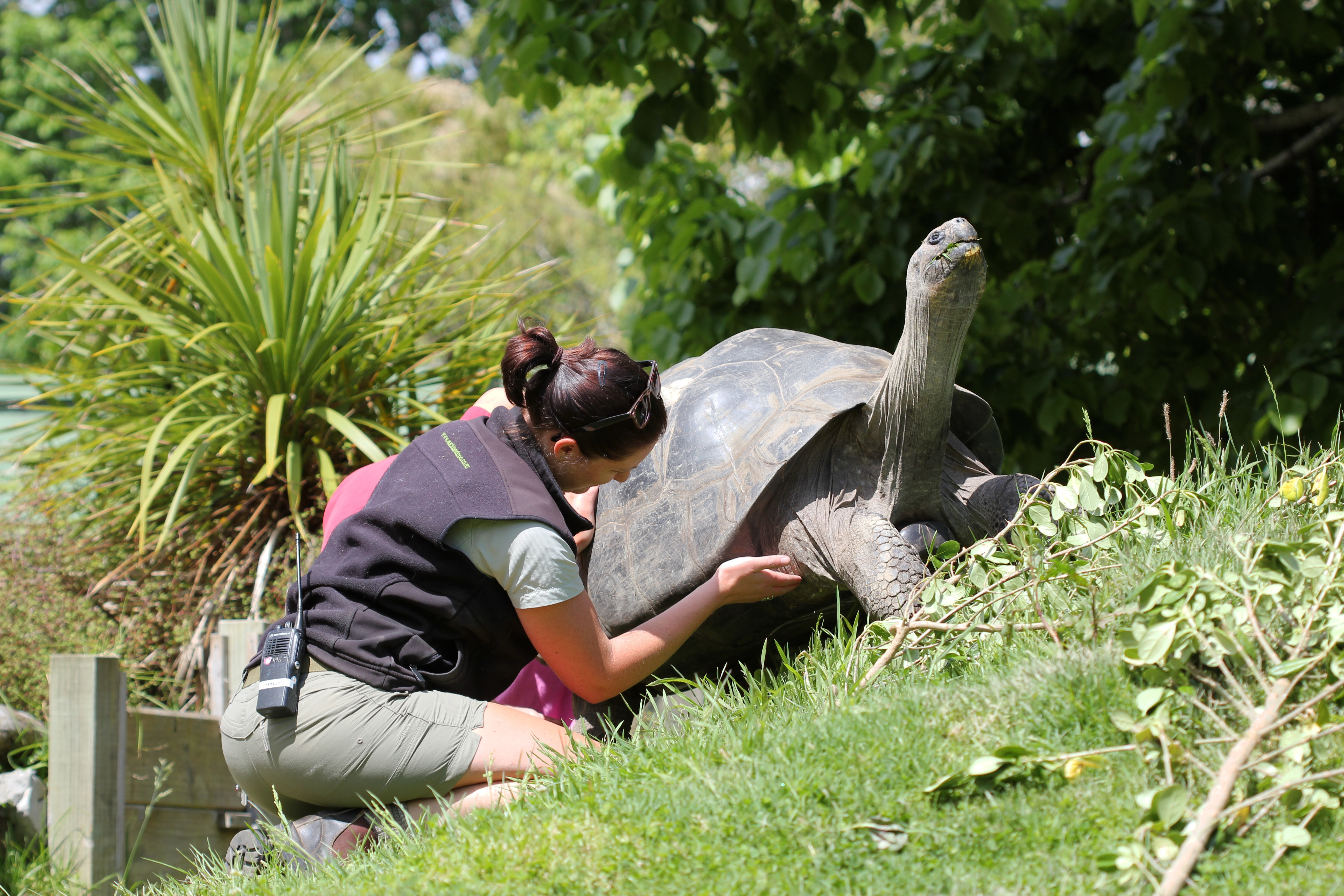 A zookeeper scratches a Galapagos tortoise (Geochelone nigra) at Auckland Zoo. The upstretched neck is a dominance display.